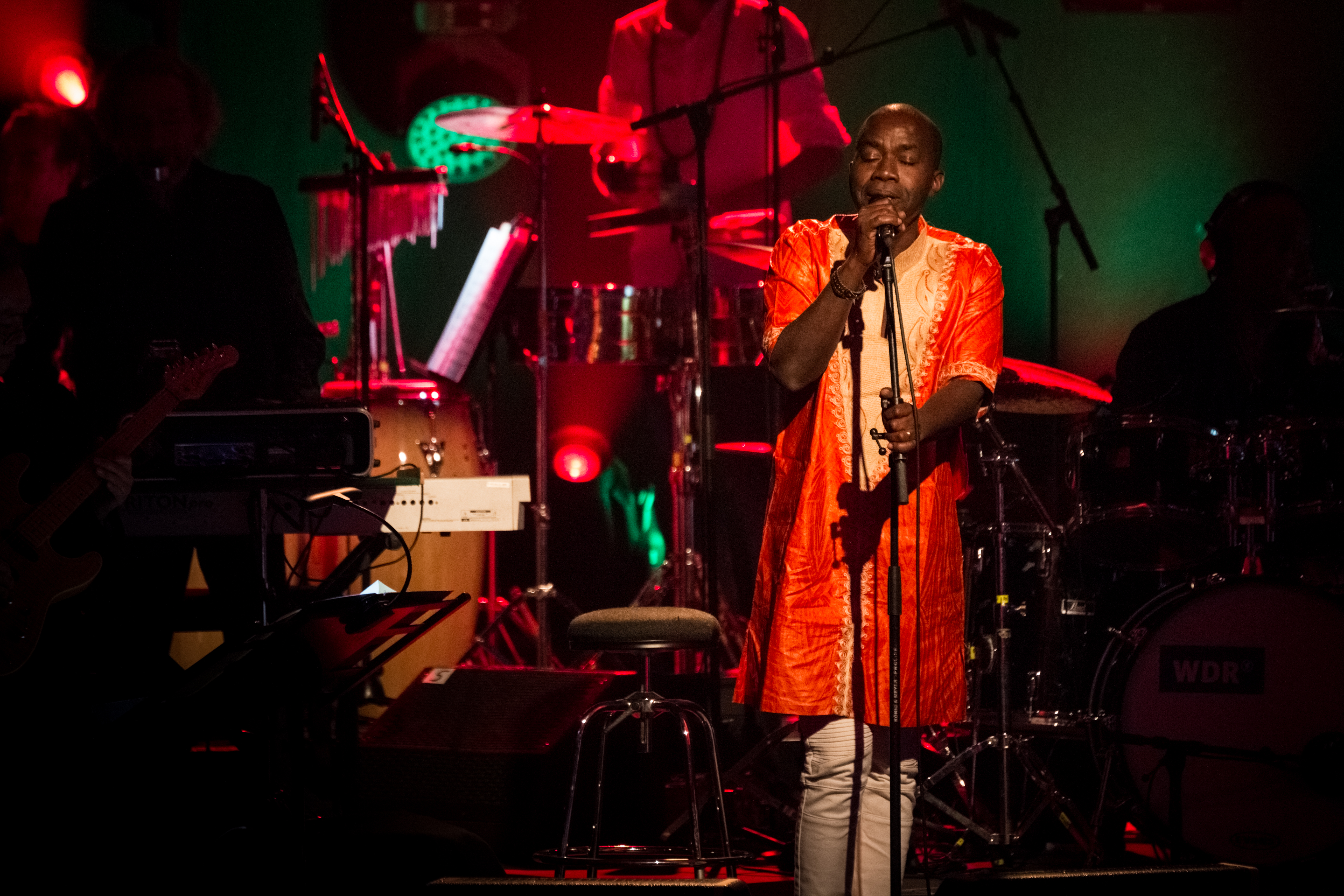 WDR Big Band feat. Mokhtar Samba - Leverkusener Jazztage 2016